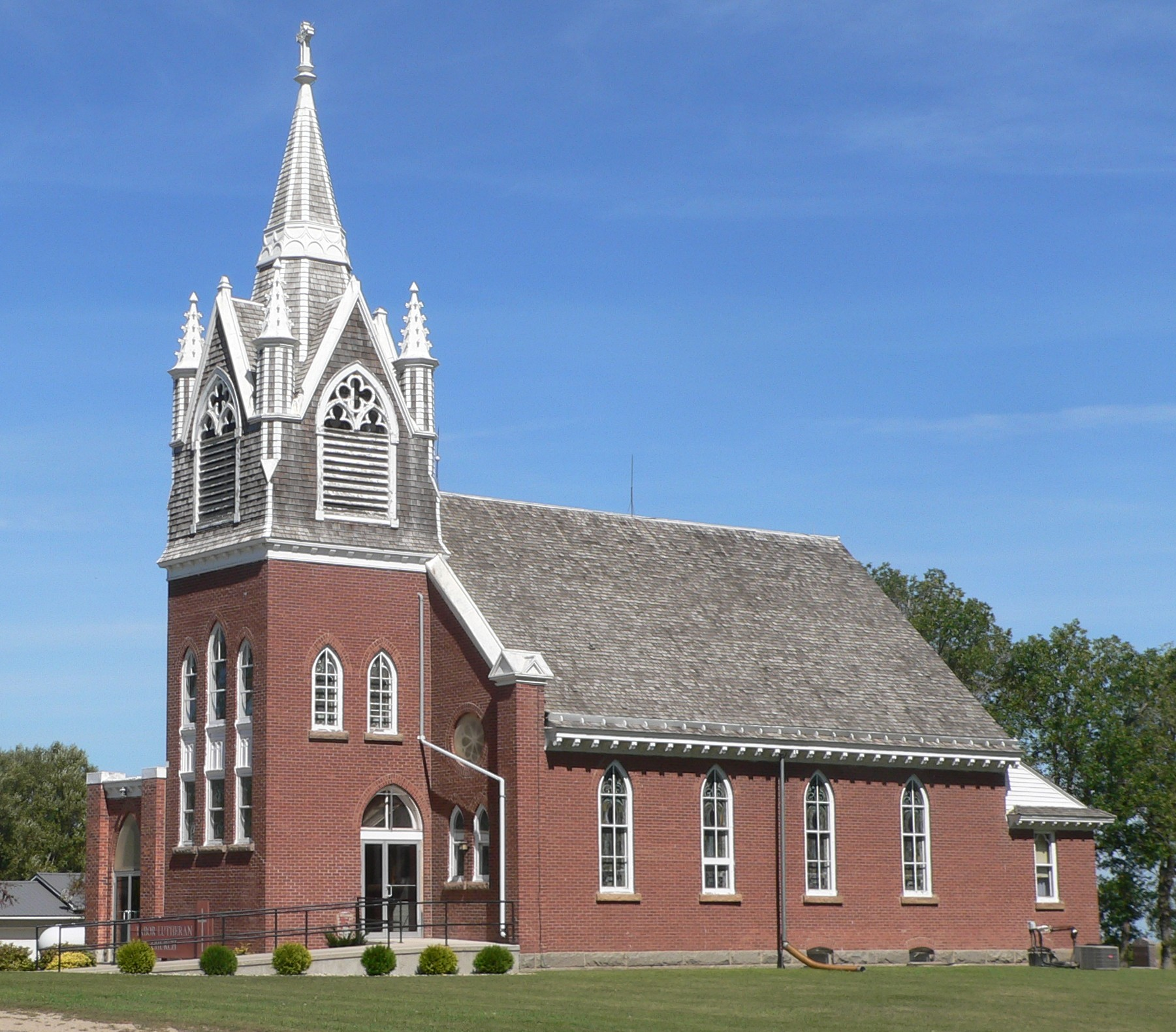 Tabor Lutheran Church, at southeast corner of county roads 162 St and 472 Ave in Strandburg, South Dakota; seen from the southwest.